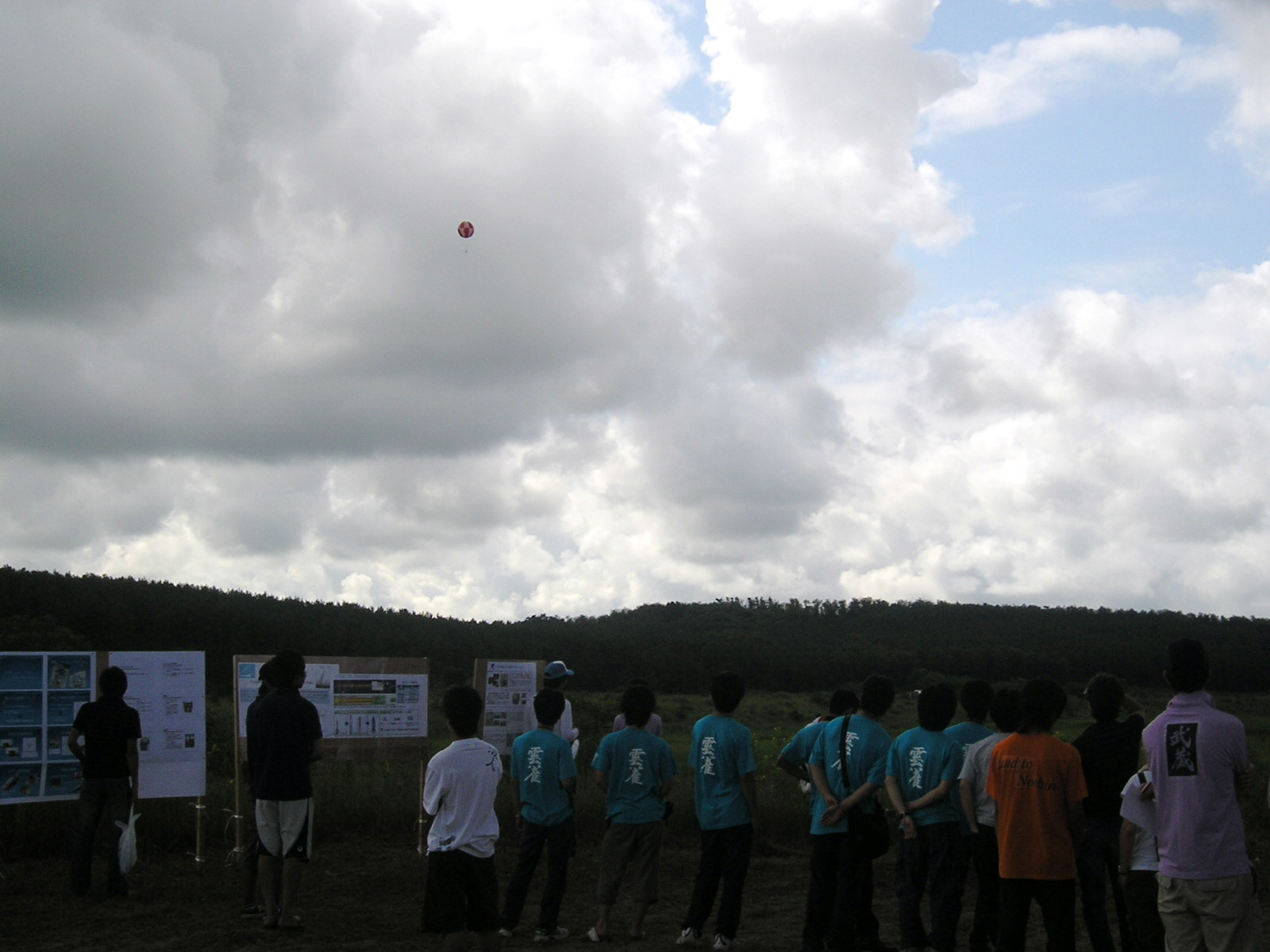 Participants watch as the release of a CanSat (a mock-satellite the size of a beverage can) approaches, at the Noshiro Space Event '07 held in Noshiro, Akita, Japan.